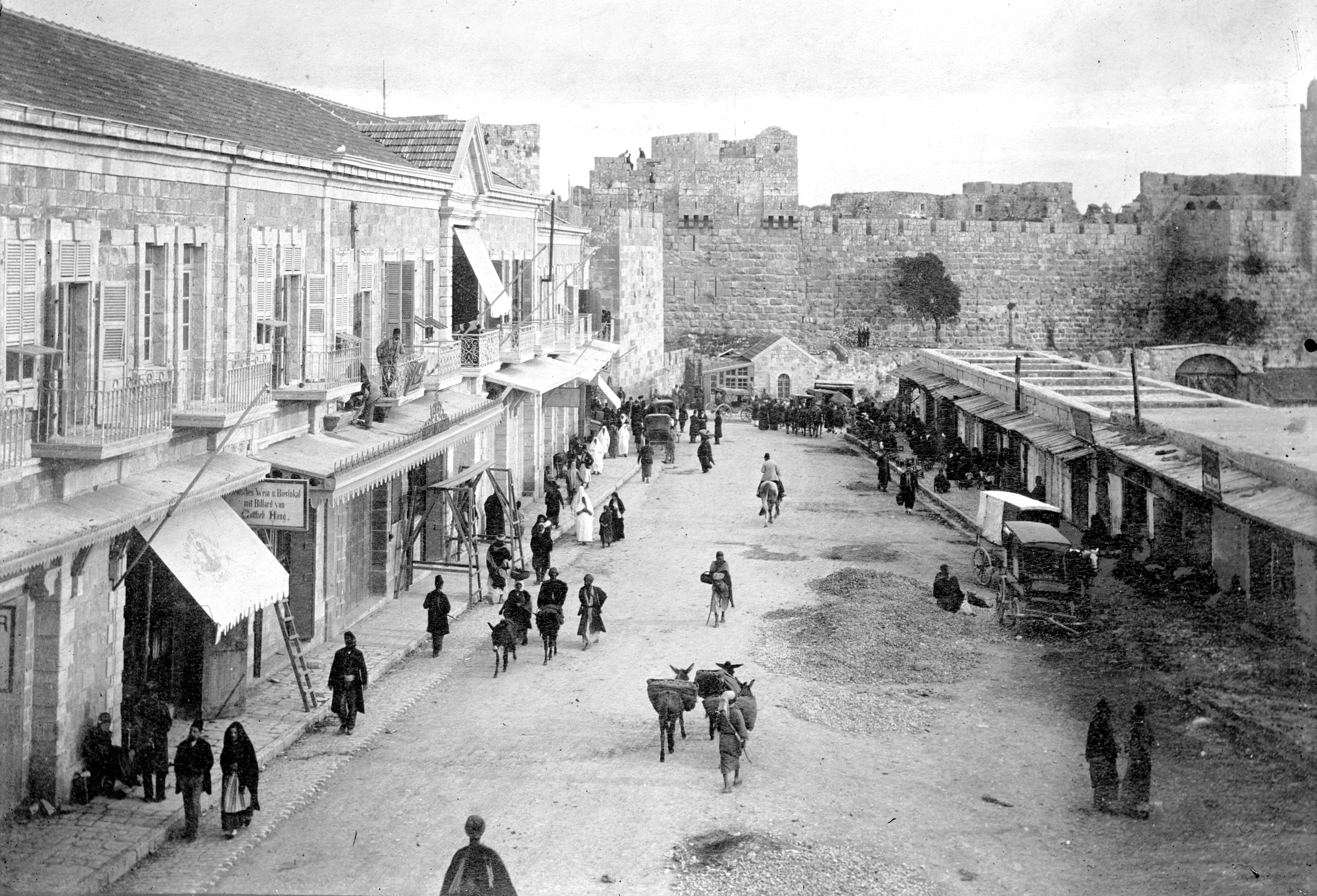 Jerusalem - Jaffa Gate.